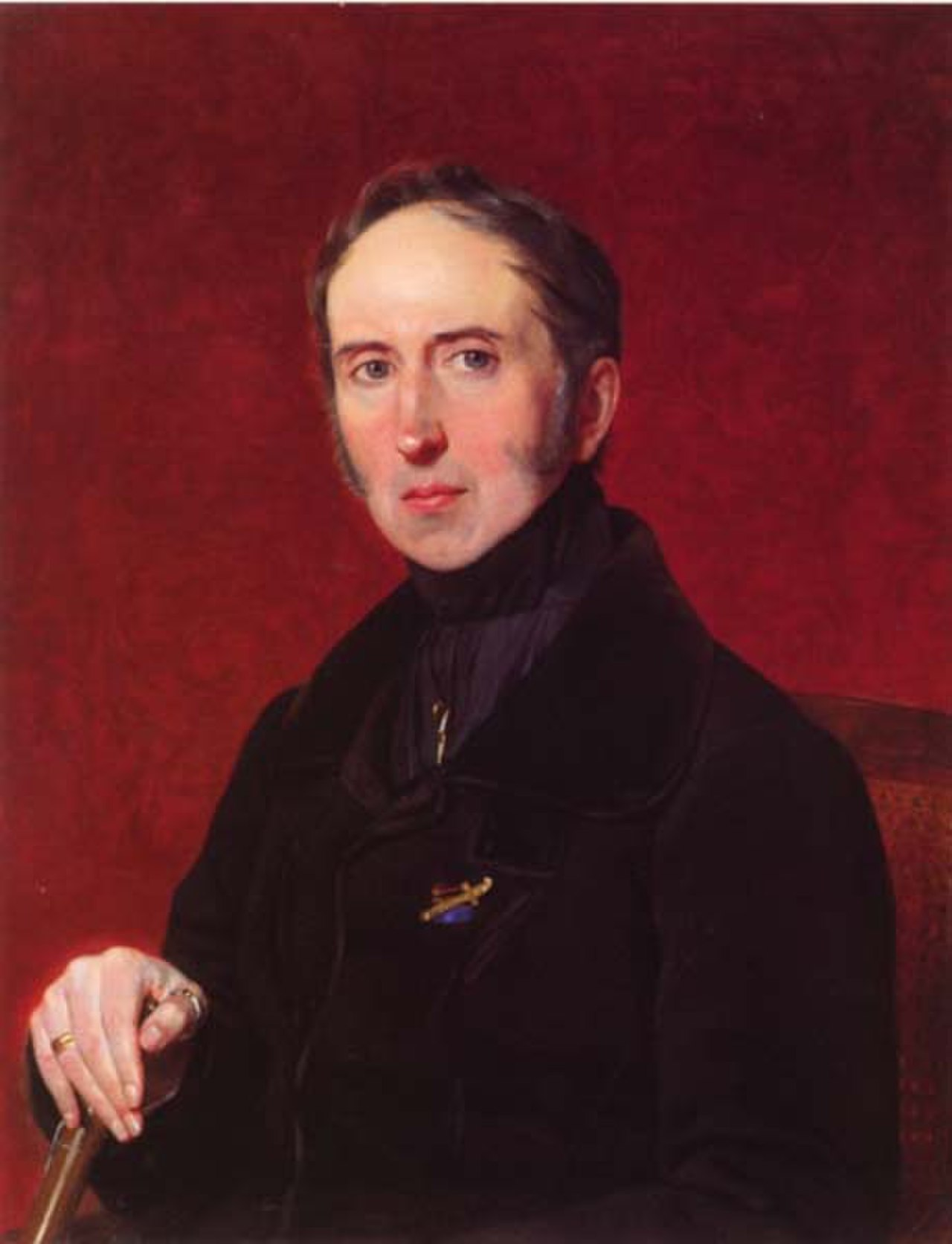 Nikita Grygoryevich Volkonsky (09.07.1781 – 06.12.1844) Волконский Н.Г. Из фондов ТМИИ